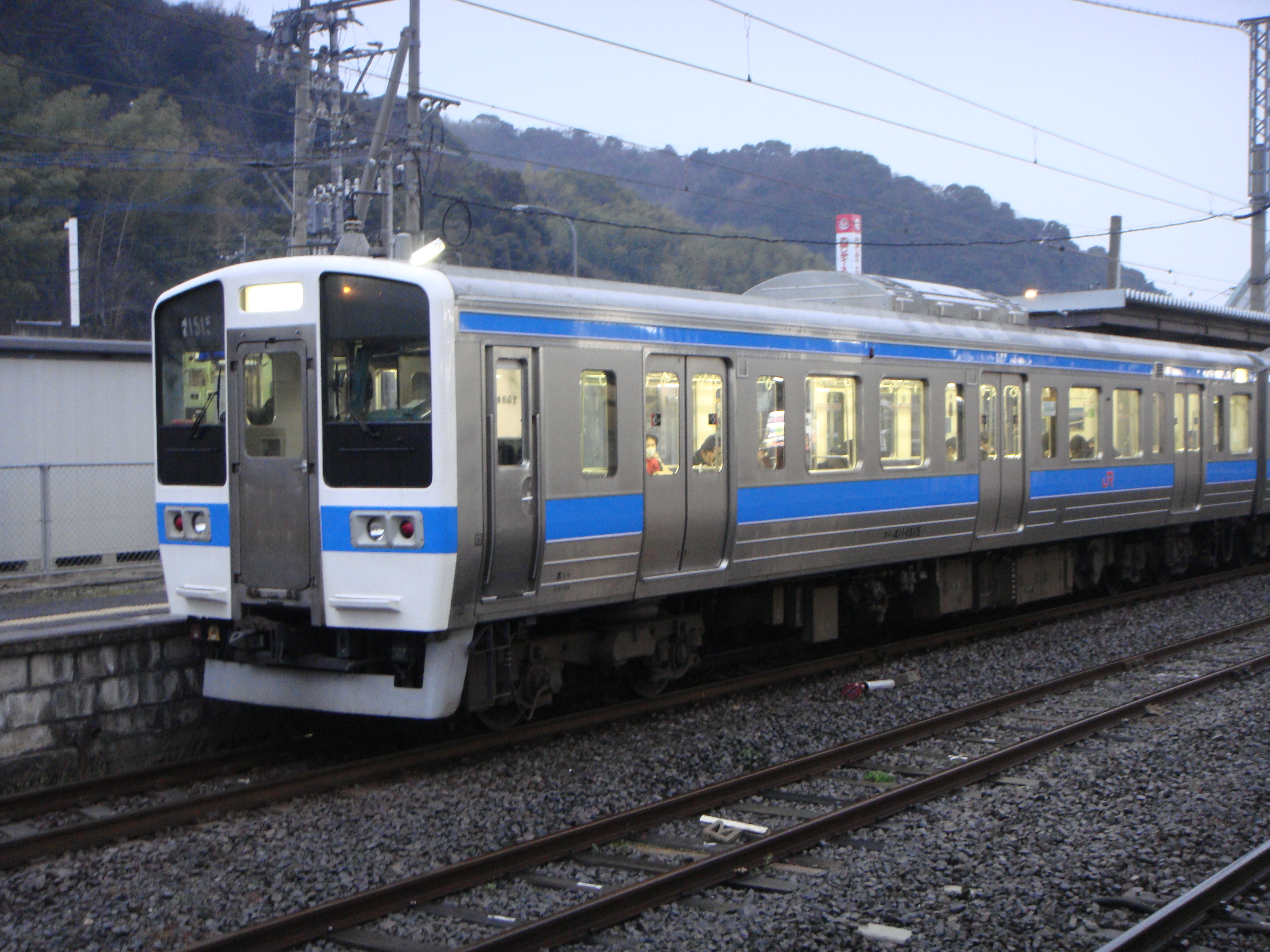 JR Kyushu 415-1500 series EMU at Nagasaki Line and Sasebo Line Hizen-Yamaguchi Station, in Yanaguchi, Kohoku Town, Saga, Japan.